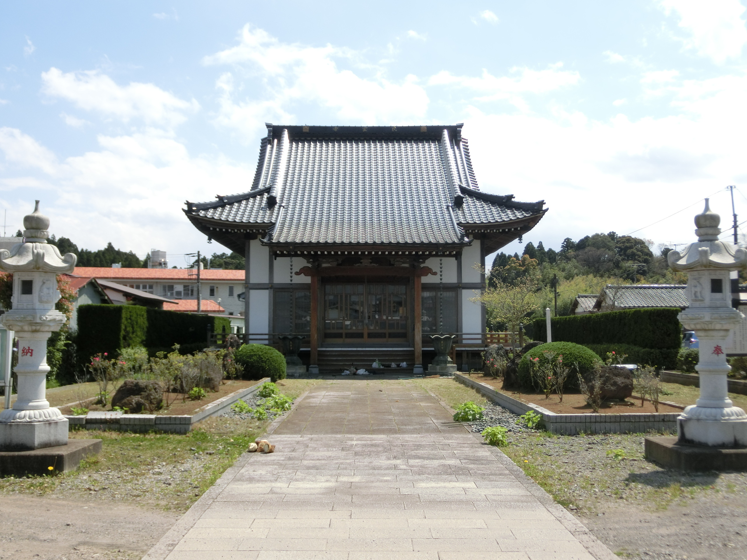 Ryogen-ji (Otaki)